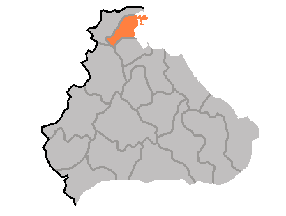 Munchon county map